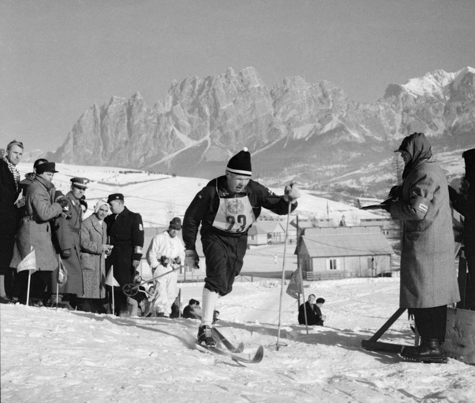 Photograph of the Finnish cross-country skier Eero Kolehmainen (1918–2013) at the 1956 Olympic Games in Cortina.